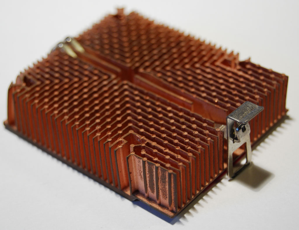 A CPU socket-heat sink with fins made of copper